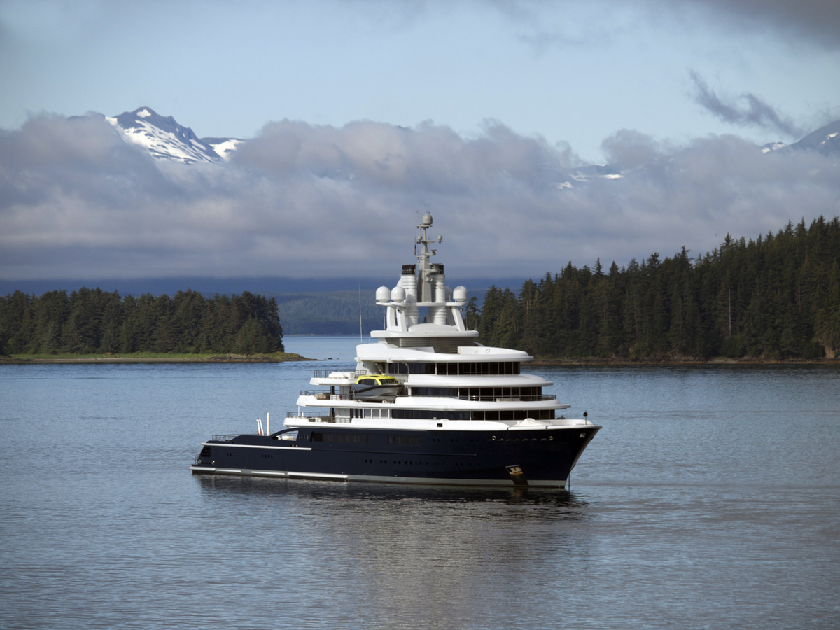 Luna was constructed for Russian billionaire Roman Abramovich who will add her to his already significant list of large luxury yachts. Luna is also one of the largest explorer yachts in the world. Motor Yacht Luna Long Range Expedition. Motor yacht Luna is a 115 metre (377ft) explorer yacht built by Lloyd Werft and Stahlbau Nord Shipyards.